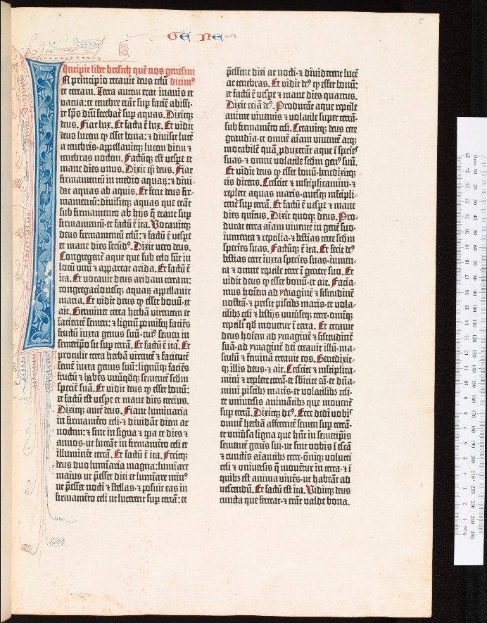 Page from volume 1 of a complete 42-line Bible printed by Johannes Gutenberg and held by the Bodleian Libraries, Oxford. Latin printed text with illuminated letters and annotations. Hubay number 24. Shelfmark of this volume: Arch. B b.10. Scanned by the Polonsky Foundation Digitization Project. For more provenance information